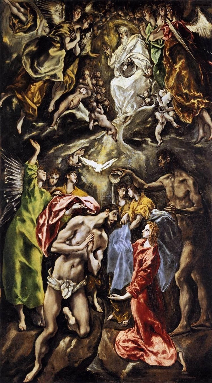 El Greco, “Baptism of Christ”, painted 1608-1614. Size: 130 by 83 inches (330 by 211 cm). Hospital de San Juan Bautista de Afuera, Toledo, Spain.